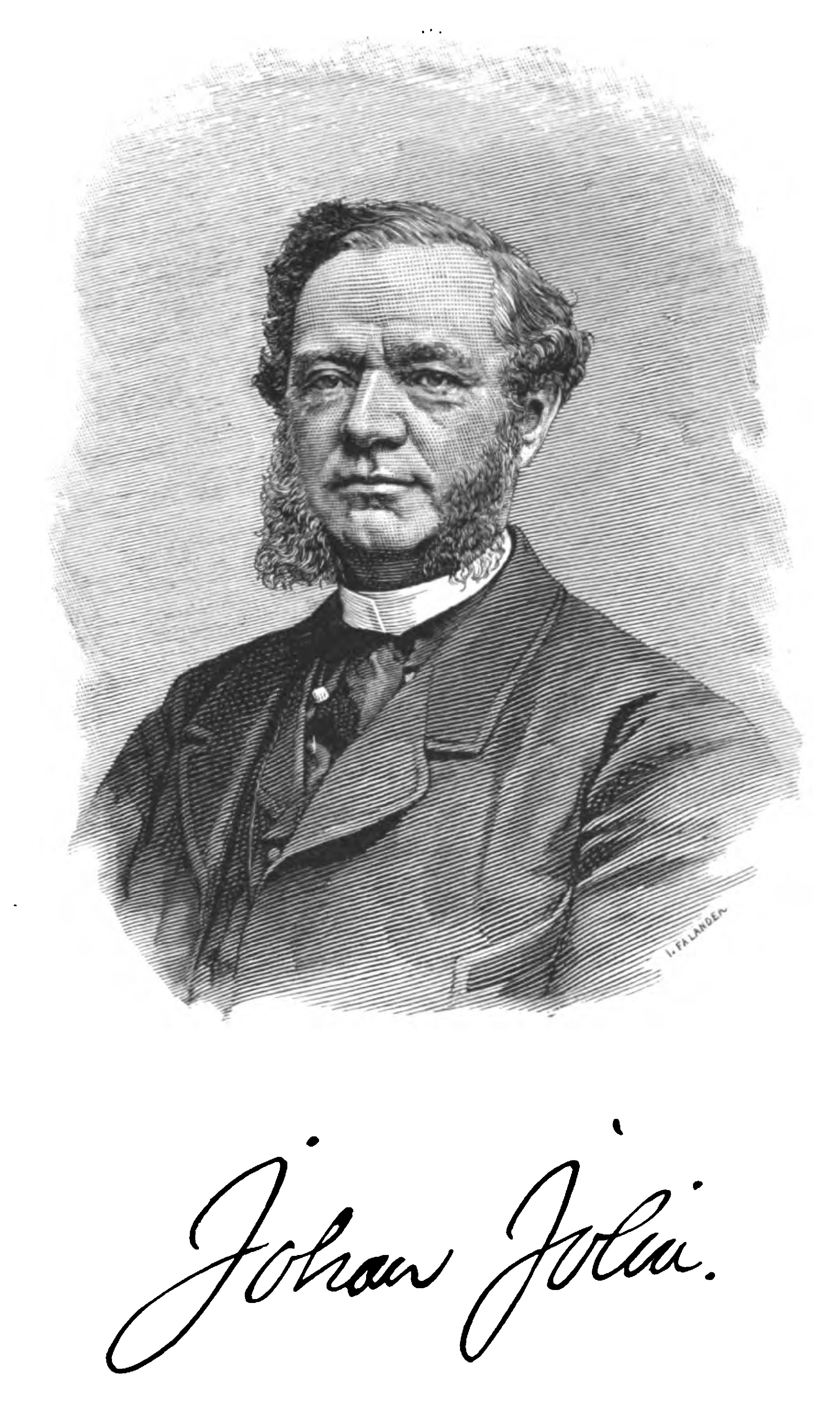 Johan Jolin (1818-1884), Swedish actor, playwright, song writer and translator.